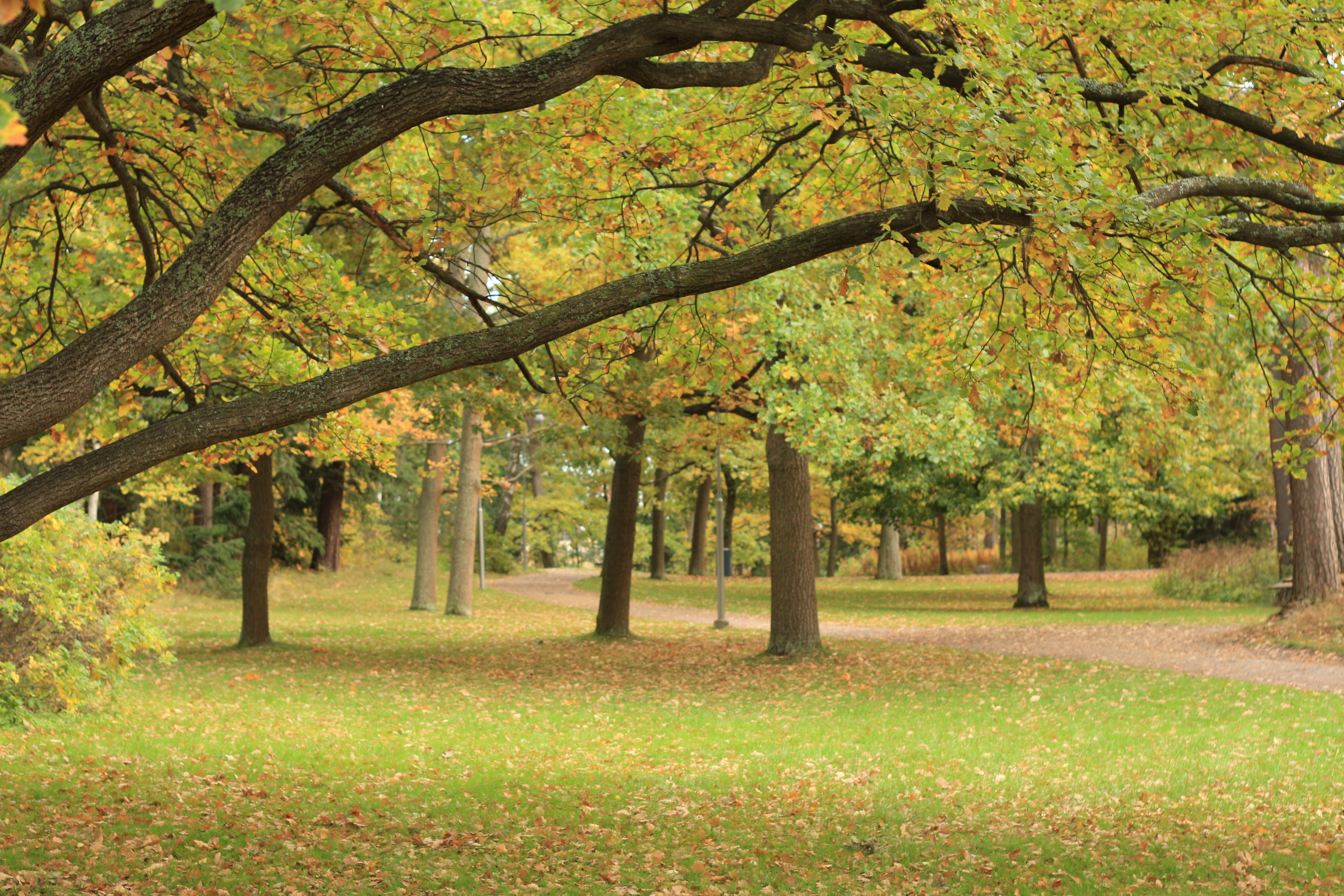 Fall colors in Seurasaari, Helsinki, Finland.